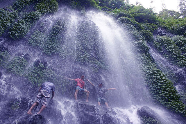 Asik-asik Falls is located at Sitio Dulao, Upper Dado, Alamada, North Cotabato.